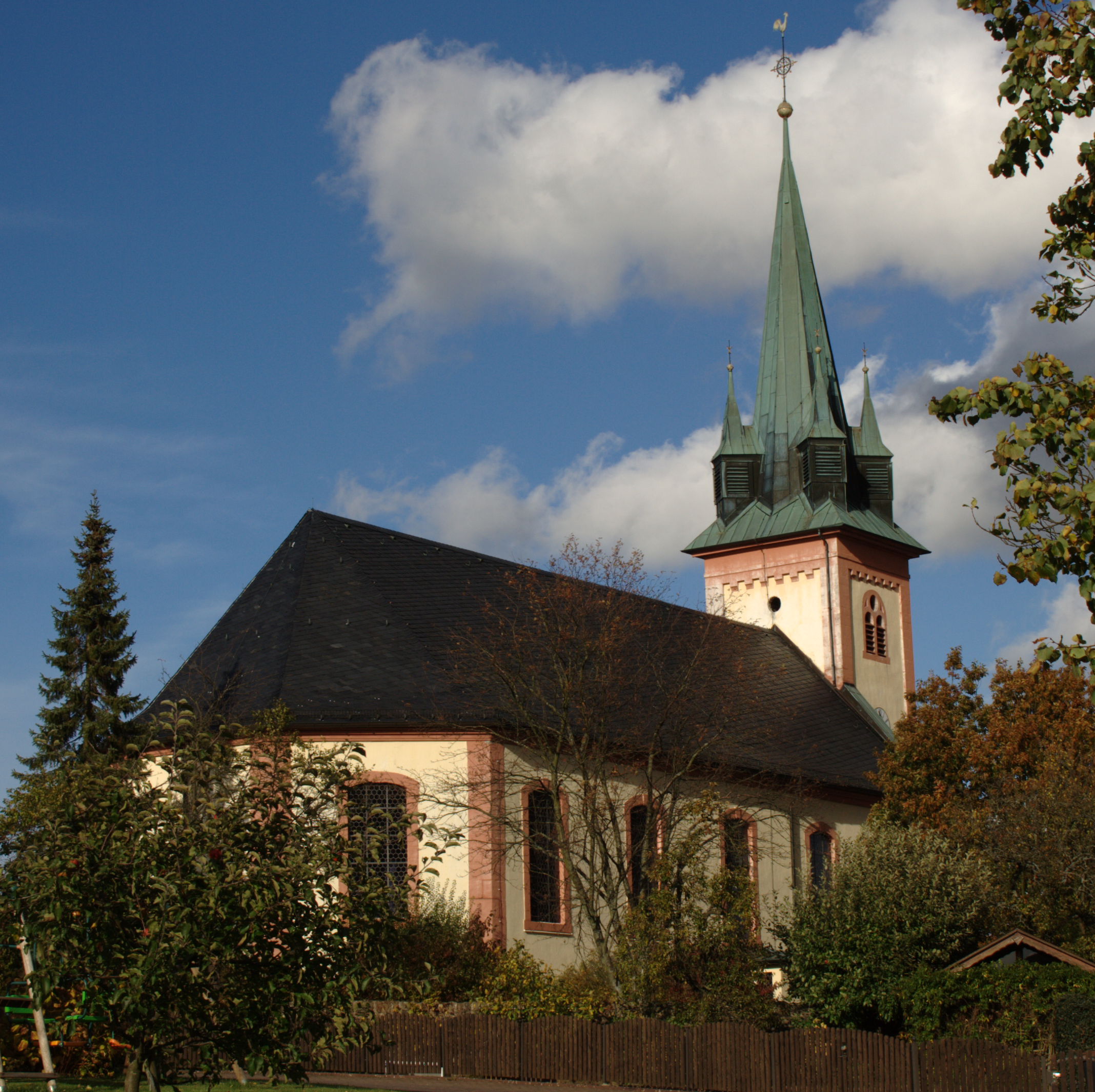 Catholic Church in Hosenfeld / Hesse / Germany